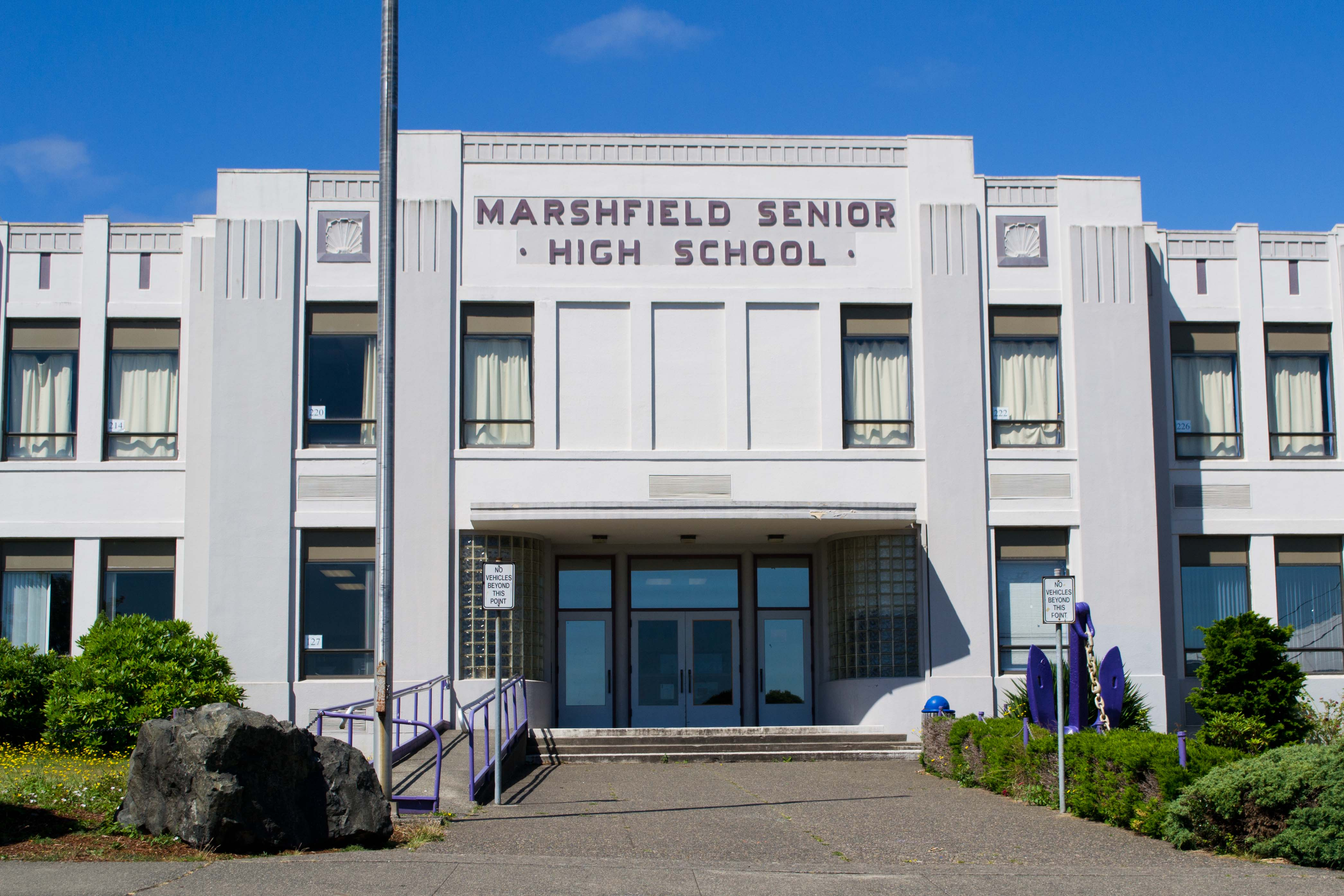 Main entrance across from the Marshfield Cemetery